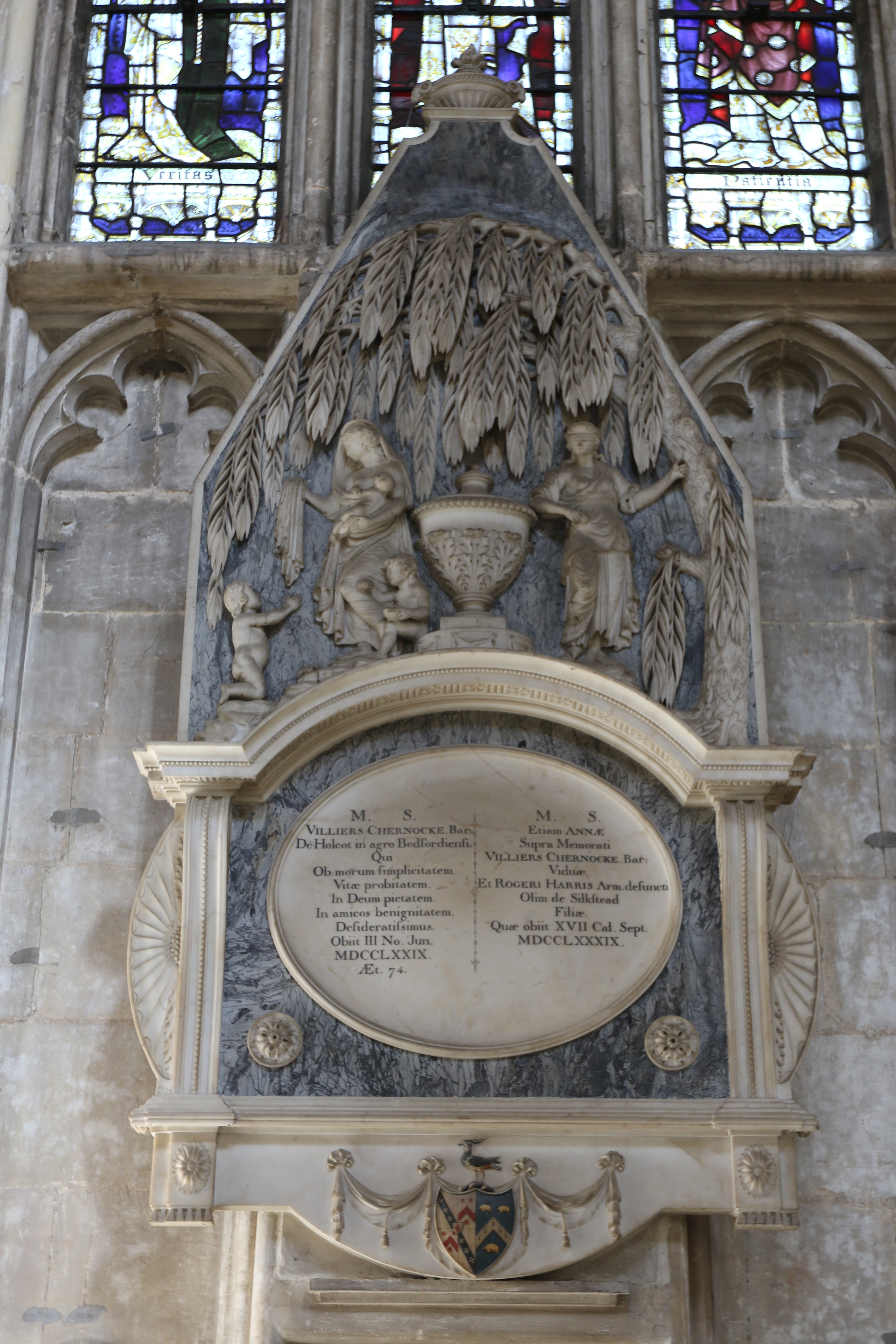 Villiers Chernocke, Bart. Died 3 Jun 1779 aged 74 Anne Chernocke, died 17, September 1789.